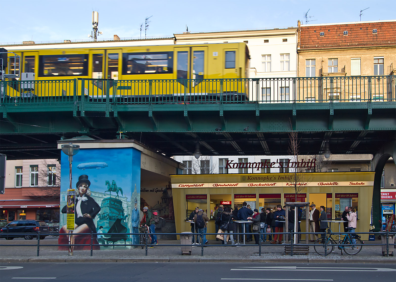 Konnopke's Imbiß after reconstruction in Berlin Prenzlauer Berg, Germany. (O3038182-v4)